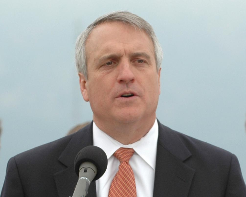 Colorado Governor Bill Ritter speaks to all those attending a Tuesday afternoon press conference held on the grounds of the National Wind Technology Center in Boulder. Ritter signed House Bill 1281 - legislation that will require 20 percent of the energy provided by Colorado's large energy utilities to come from renewable sources such as wind and solar energy by 2020.